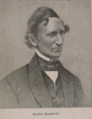 Postcard: Portrait of Elihu Burritt, published as a postcard about 1910. Description: Cropped (large margins removed) from postcard; store Web page shows address side of card which states: "Post Card / Souvenir Burritt Centennial Celebration"; Elihu Burritt was born in 1810; postcard was not mailed.